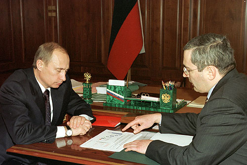 THE KREMLIN, MOSCOW. President Putin with Mikhail Khodorkovsky, chairman of the board of the Yukos oil company.